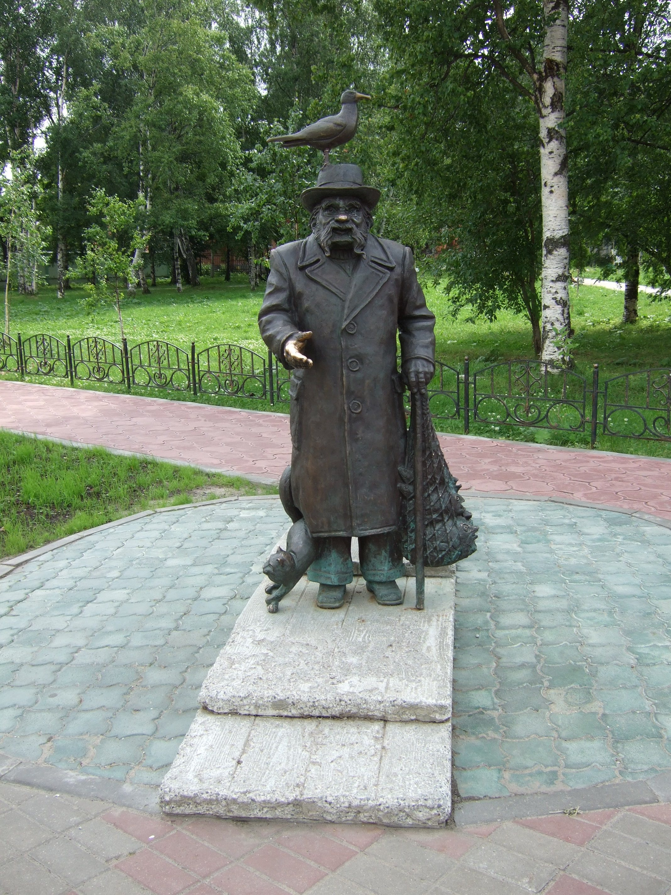 Stepan Pisakhov Sculpture at Arkhangelsk, Russia